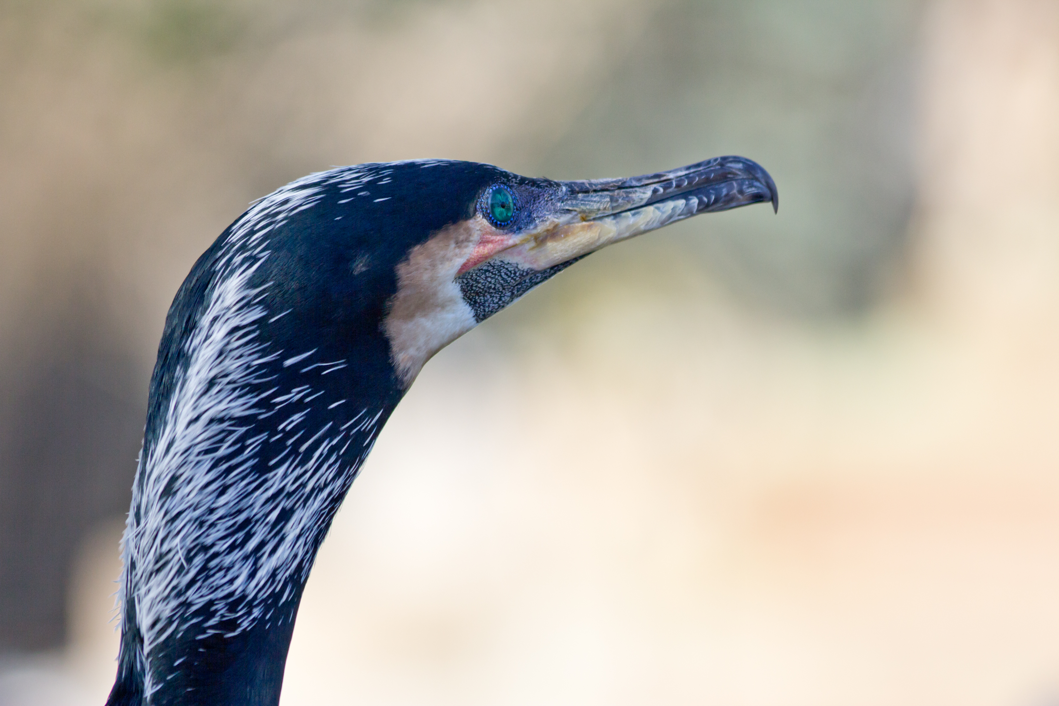 Great Cormorant (Phalacrocorax carbo sinensis) at the Zoo of Madrid, Spain.